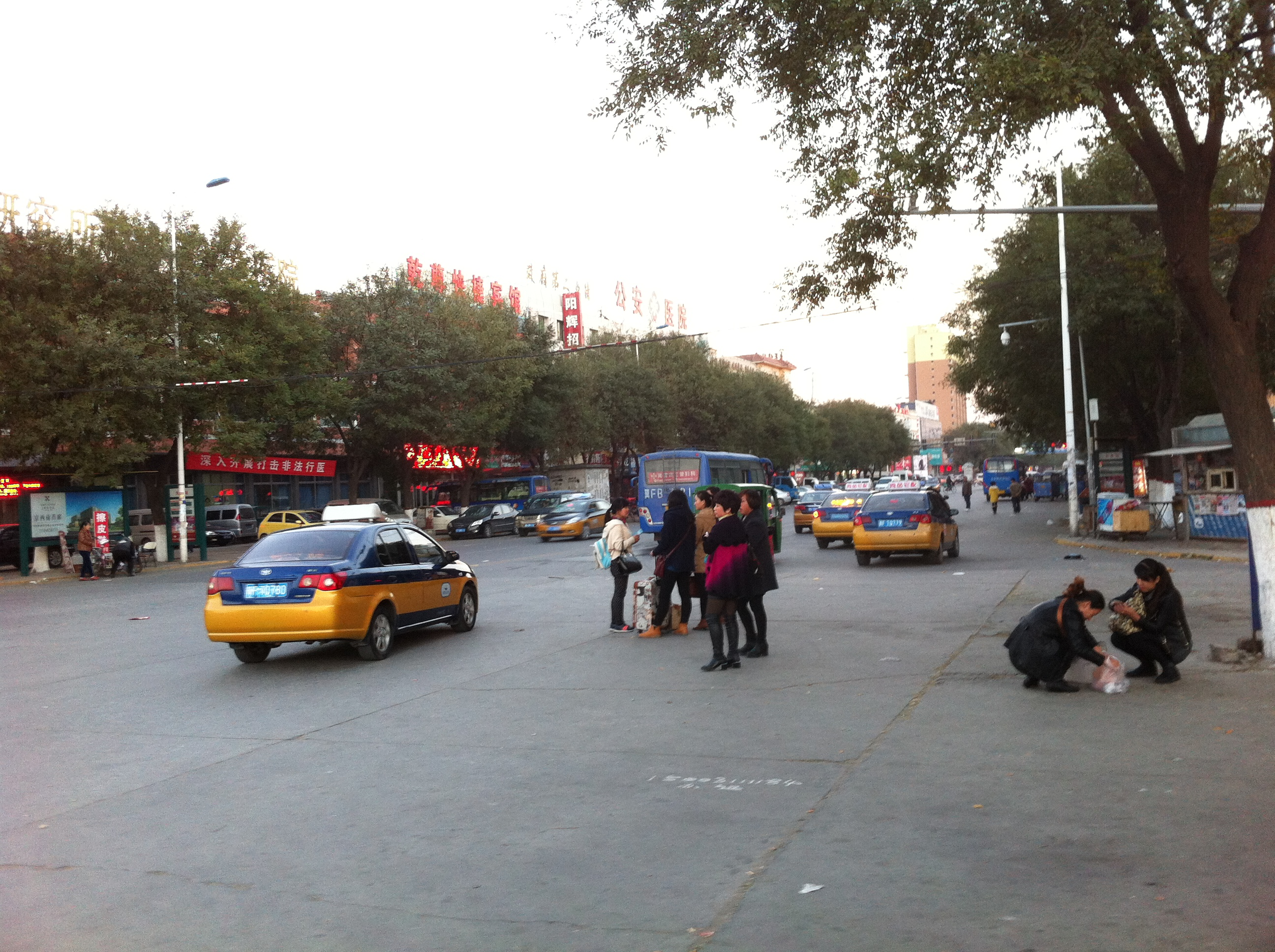 Yingbin Rd, the road from Gaobeidian Railway Station.